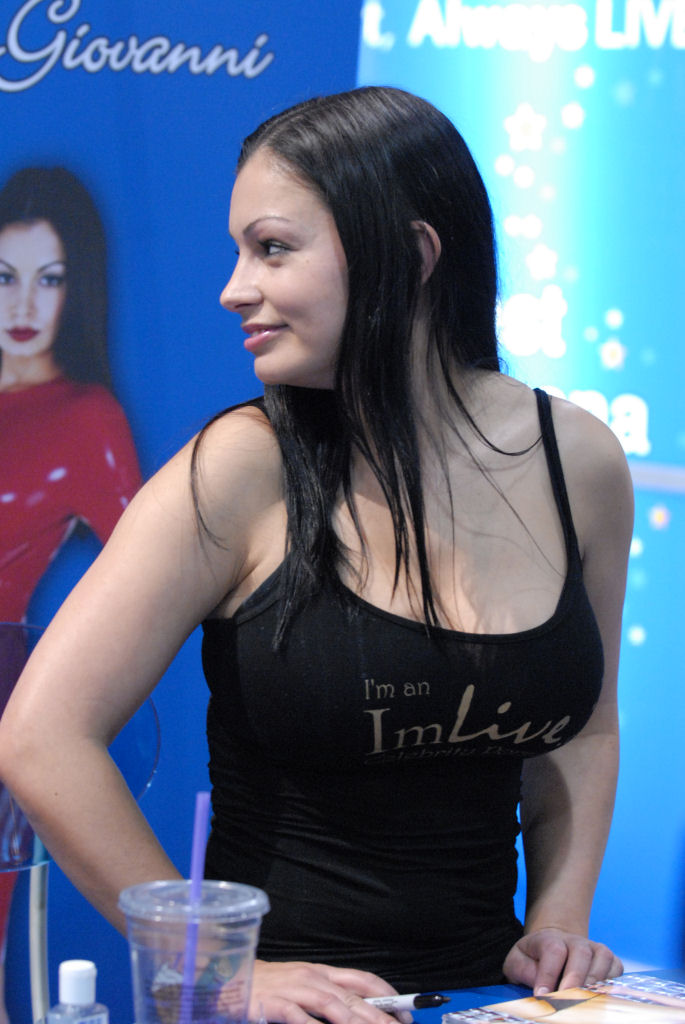 Aria Giovanni at Adult Entertainment Expo 2008